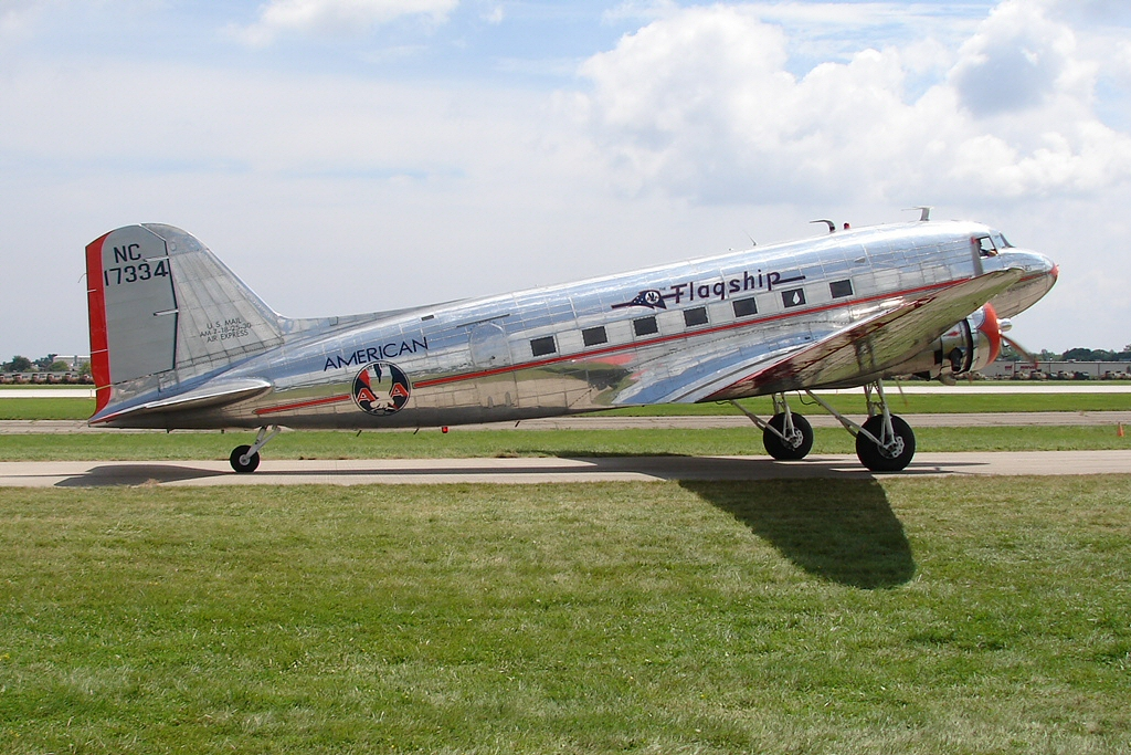 "Flagship Detroit"